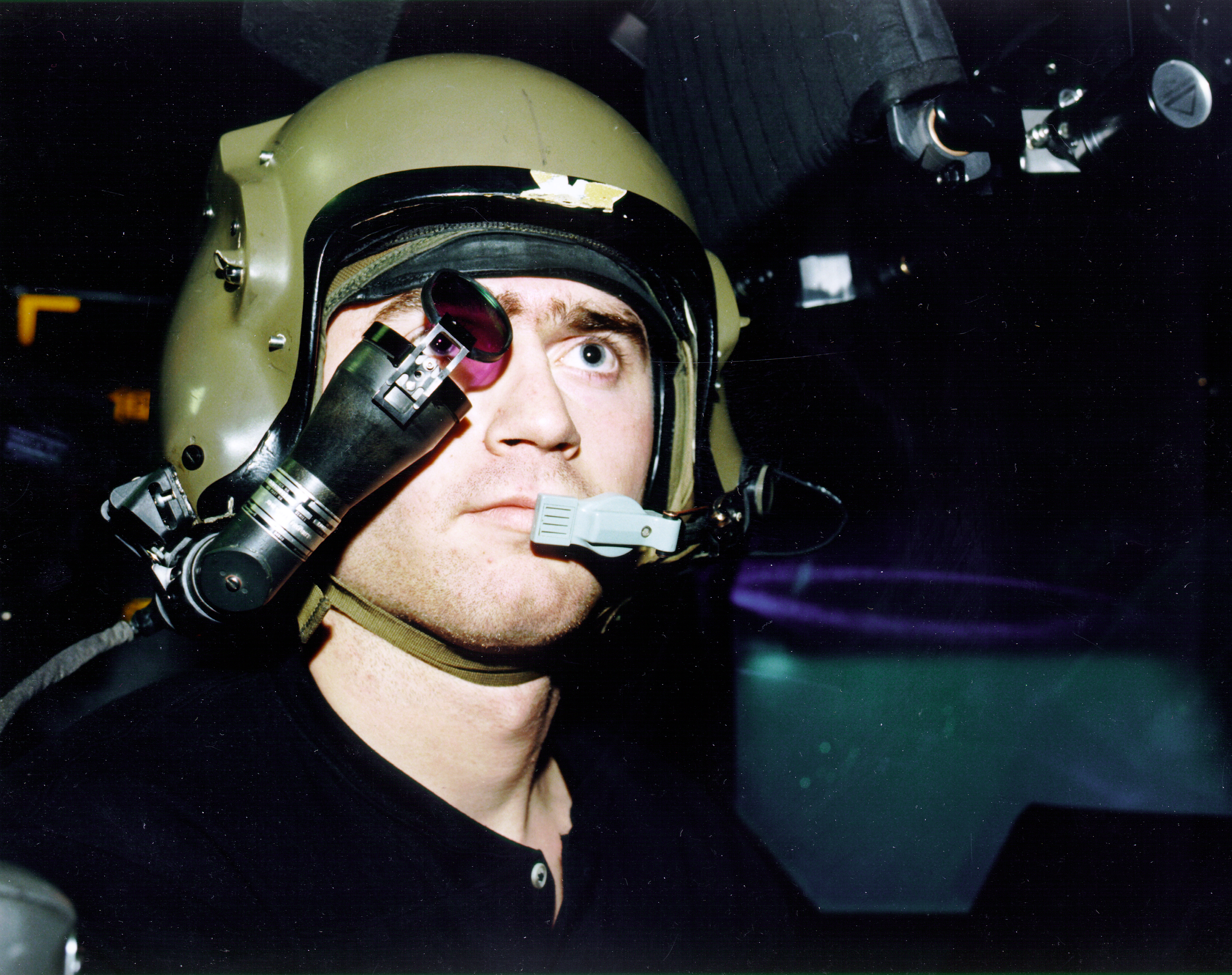 The AH-64 Apache helicopter simulator with Integrated Helmet & Display Sighting System (IHADSS) at the Ames Research Center, Moffett Field, California.